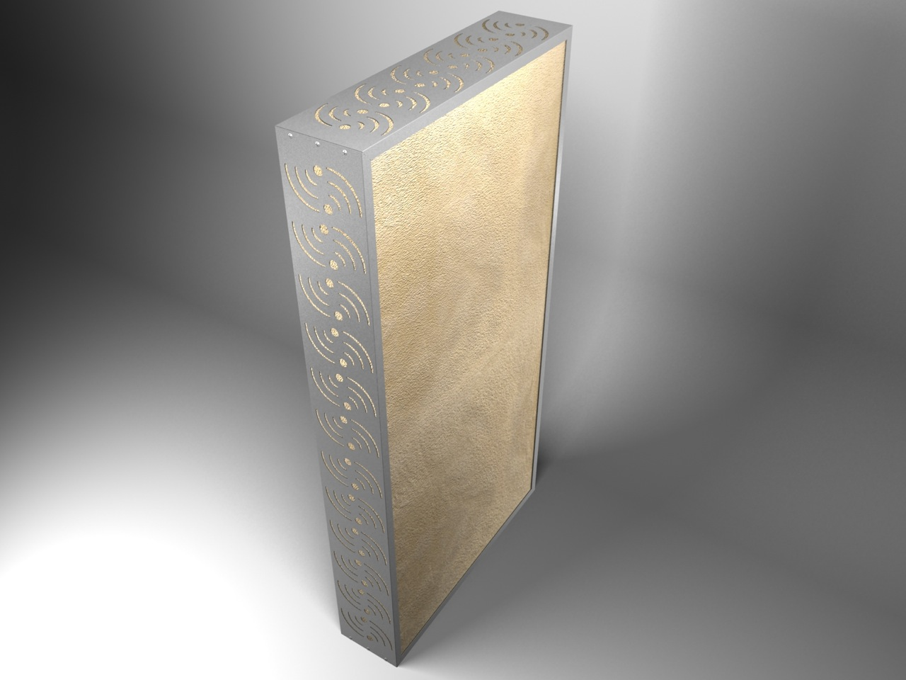 Bass Trap, Bass Traps, Bass Resonator